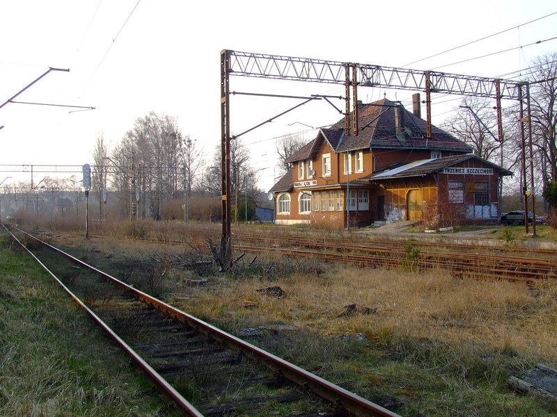 Station (closed) in Trzebiez, Poland